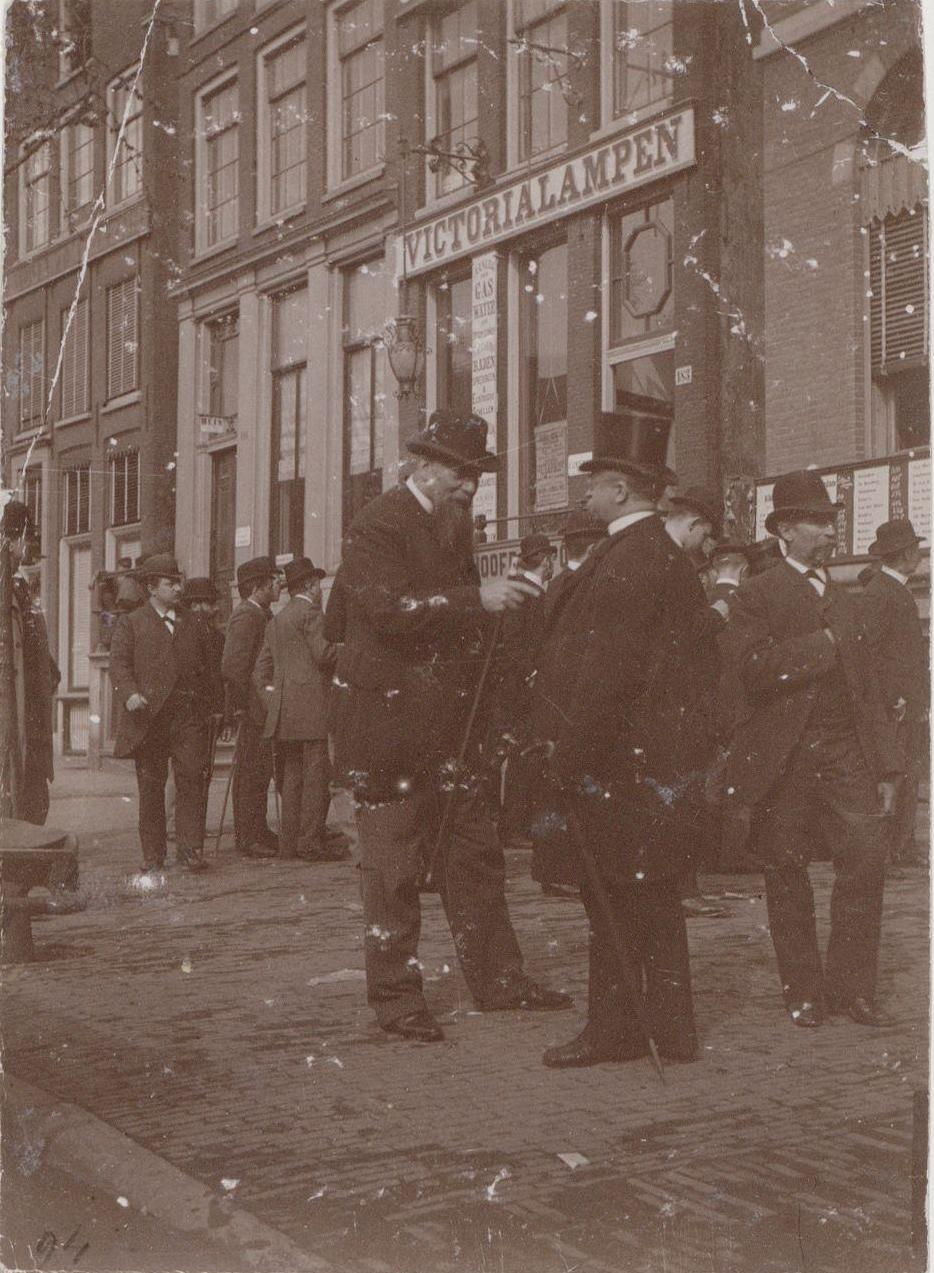 P.W. Steenkamp (1860-1914); from 1878 to 1895 Chief Constable of the Amsterdam Police, election result at Nieuwezijds Voorburgwal